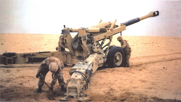 U.S. Marine Corps 155mm artillery piece at the Battle of Khafji